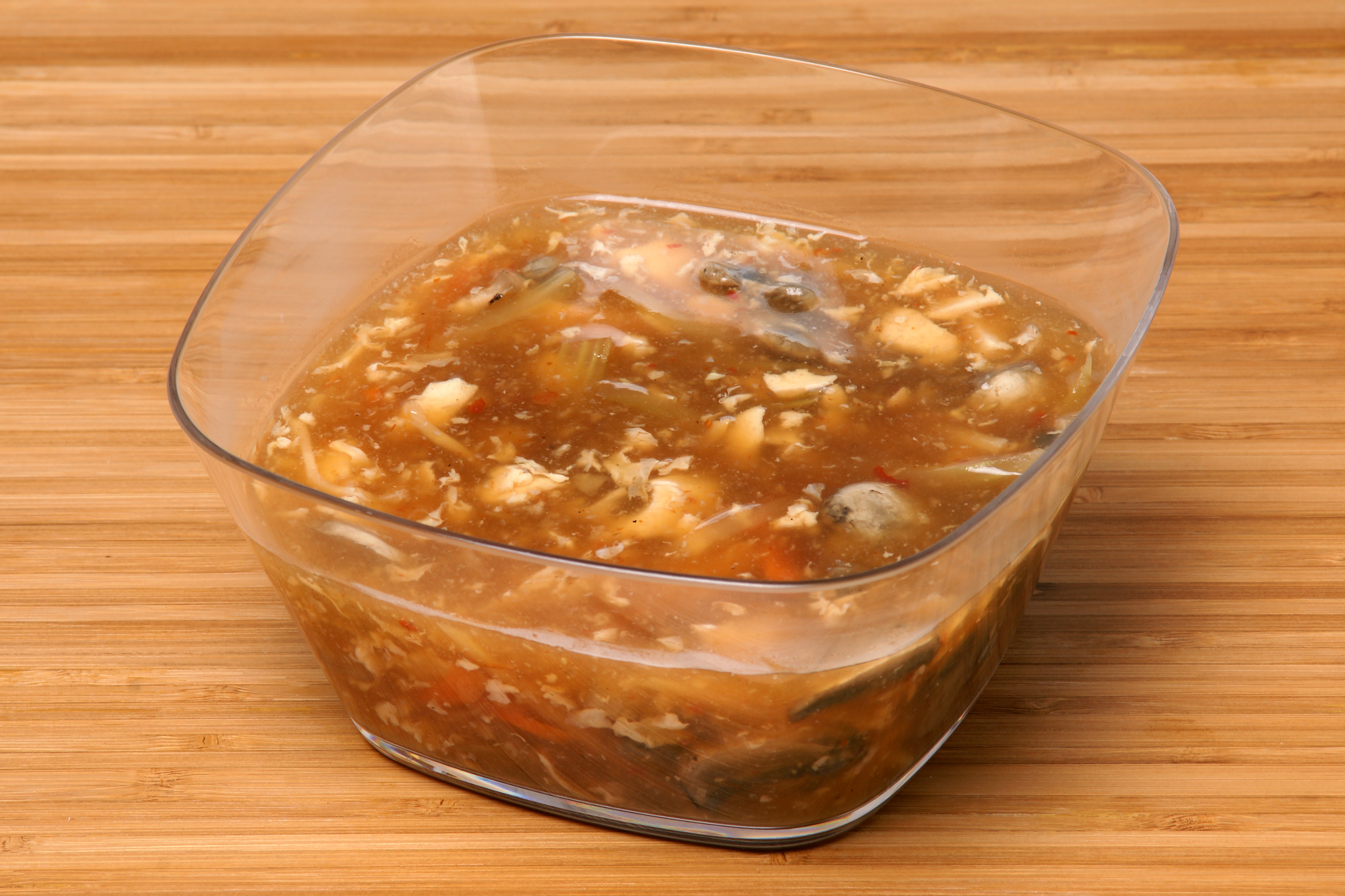 A bowl of Hot and Sour soup from a Chinese take-out restaurant in Brooklyn, NY.